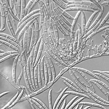 Macroconidia of Fusarium graminearum sensu stricto